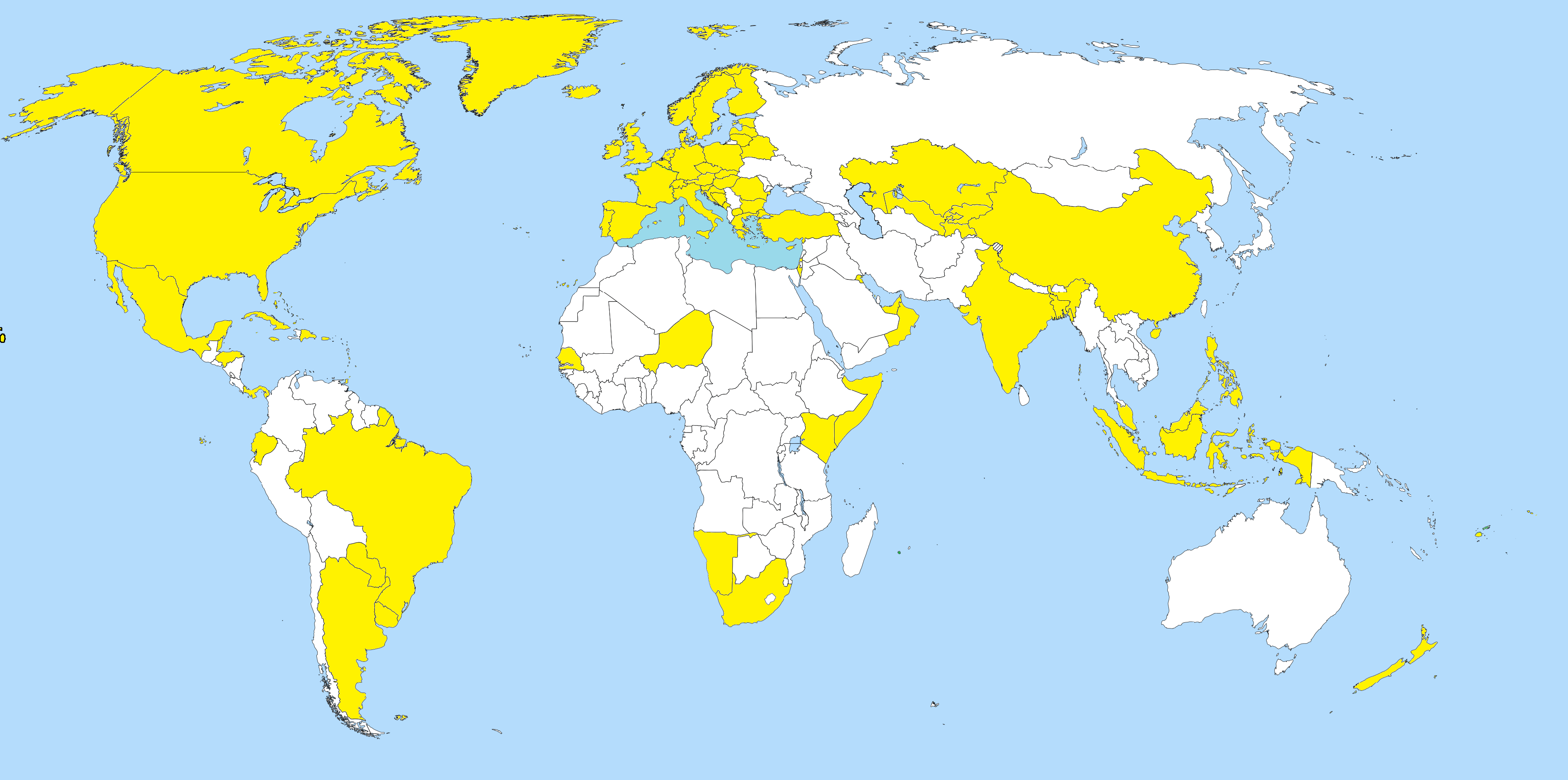 This map shows all the countries that currently have an official Amateur Radio presence on 5 MHz / 60m, whether it be by WRC-15, Article 4.4, Trial or any combination of these.